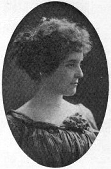 The portrait of American author Zona Gale (1874-1938)